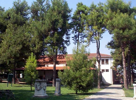 Outside View, image from the Archaeological Museum, Dion, Central Macedonia, Greece